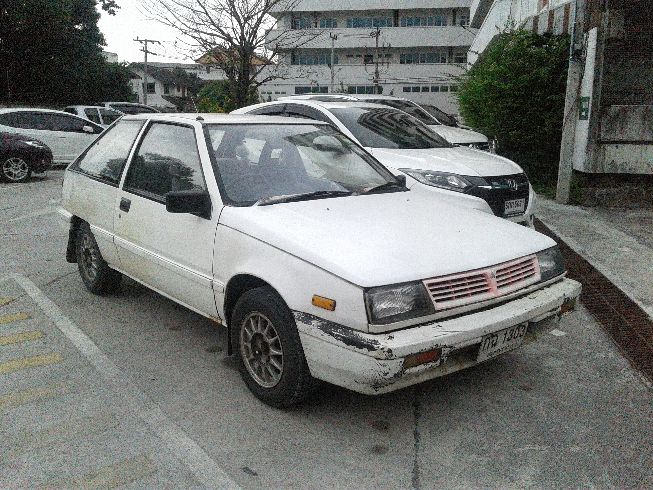 1991-1992 Mitsubishi Champ (C10) 1.5 GLX Hatchbacks (05-01-2019) in Samutprakarn Thailand.